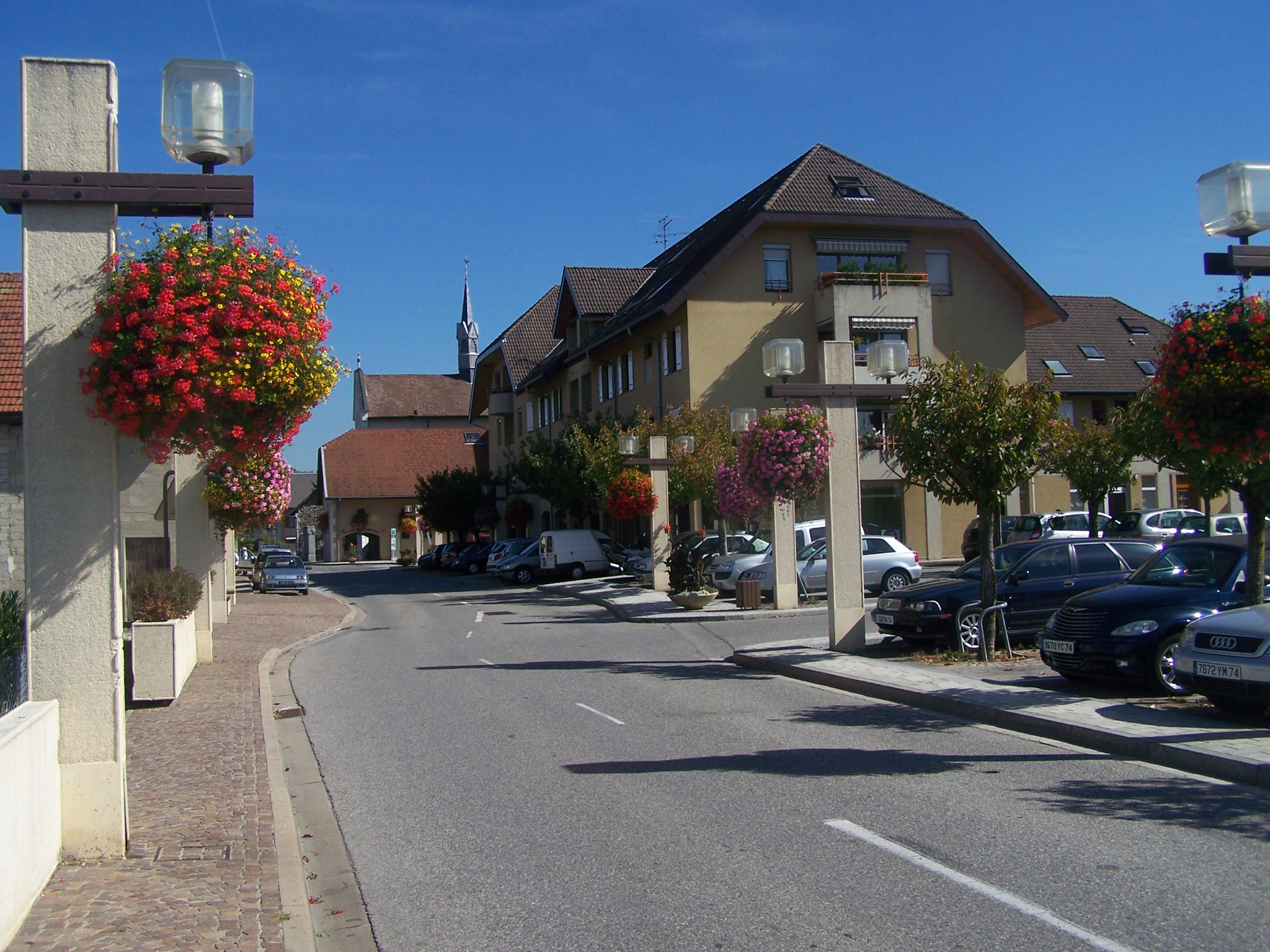 The French commune of Metz-Tessy center, in the department of Haute-Savoie.